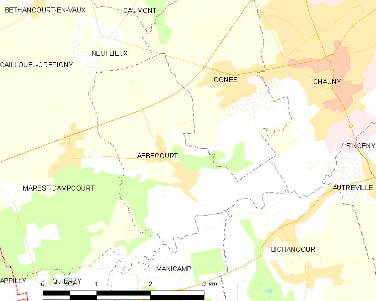 Map of French commune: Abbécourt Map commune FR insee code 02001.png